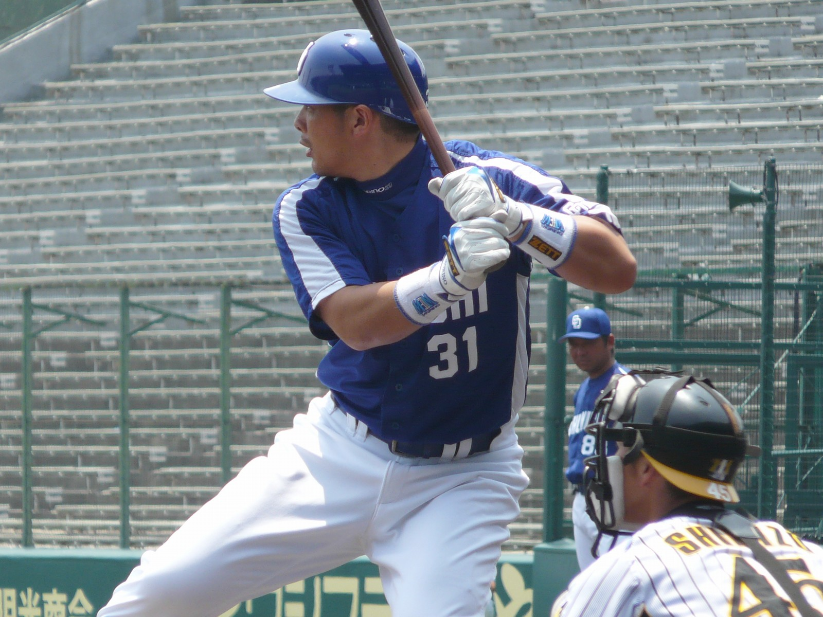 Copied from 画像:CD-Masahiko-Morino.jpg: "森野将彦"